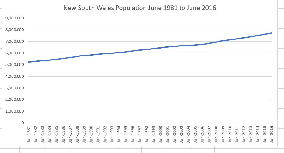 Own work : This image is based on Australian Bureau of Statistics data. The underlying data is from series A2060843J : column 20, table 310104